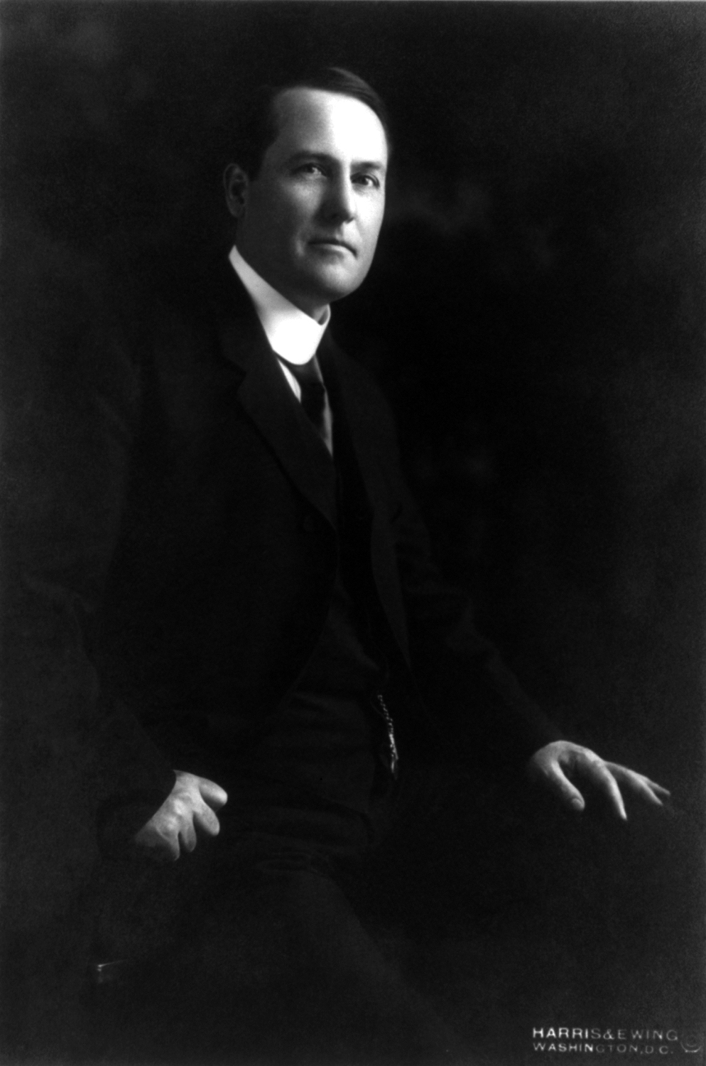 Stephen G. Porter, U.S. Congressman from Pennsylvania